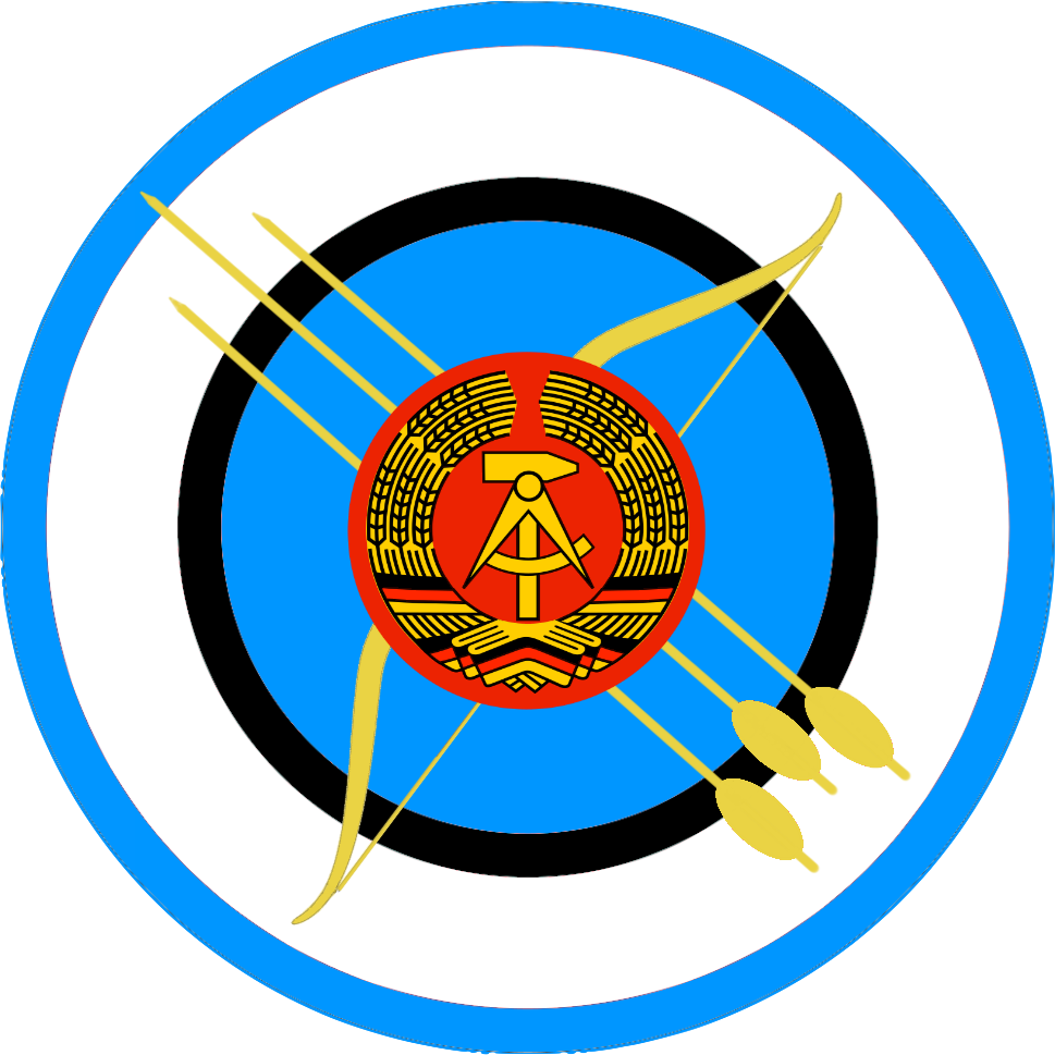 Recreated logo of the Deutscher Bogenschützen-Verband der DDR (present day Deutscher Bogensport-Verband)